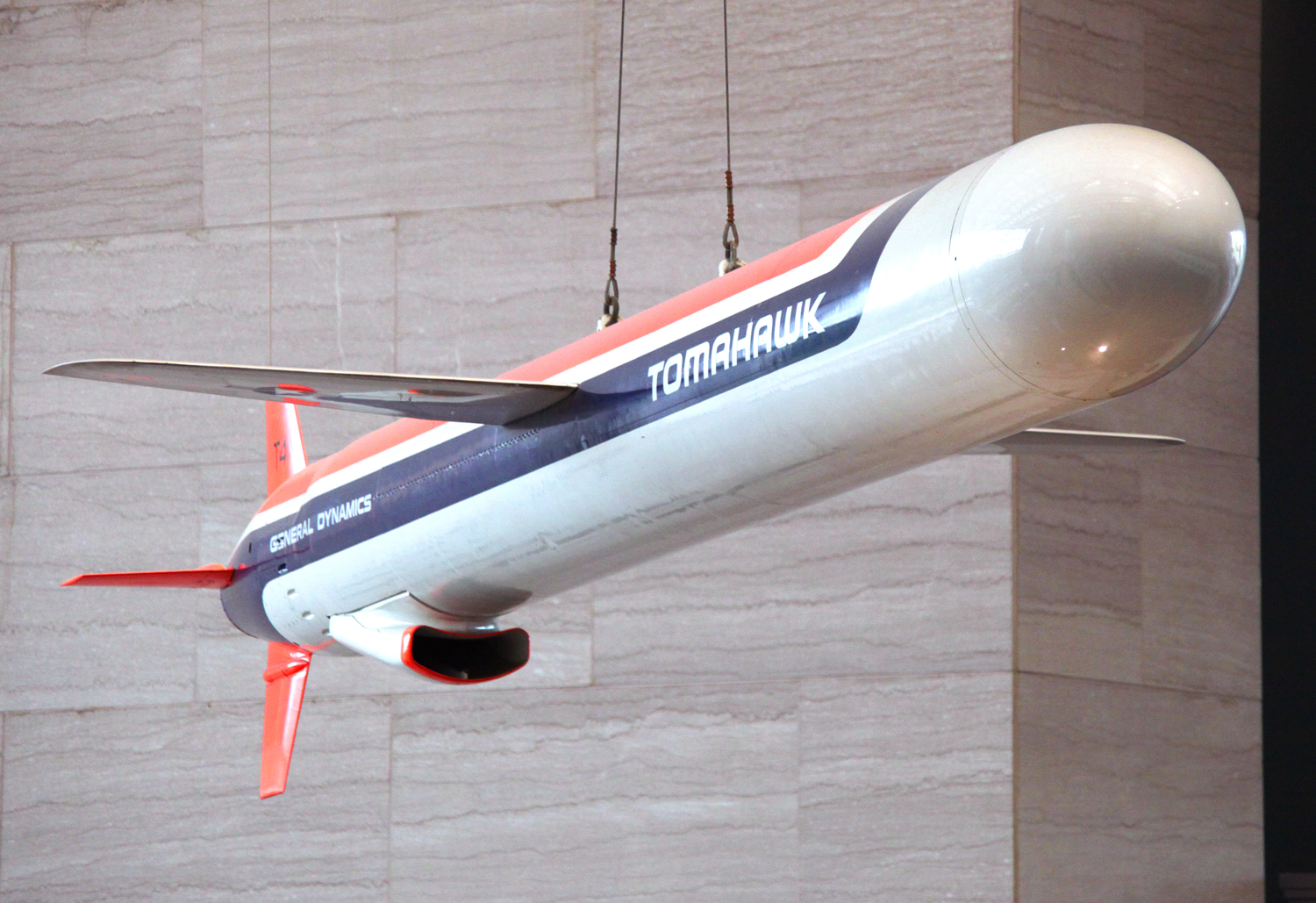 A Tomahawk cruise missile on display at the Smithsonian Air and Space Museum in Washington, D.C. The Tomahawk is a long-range, all-weather, subsonic cruise missile. The first surface ship launched a Tomahawk cruise missile in 1980, followed by a submarine launch in 1983. The U.S. Air Force developed a ground-launched and air-launched version in 1983 as well. The Tomahawk is not a rocket. It is powered by a Williams F107 turbofan small jet engine. When first launched, a a solid-fuel booster rocket gets it airborne. Then the wings deploy, the airscoop is exposed, and the turbofan engine ignites. Tomahawks generally carry a 1,000 pound bomb. However, they can also carry cluster munitions or a nuclear weapon. Each Tomahawk costs about $1.45 million.